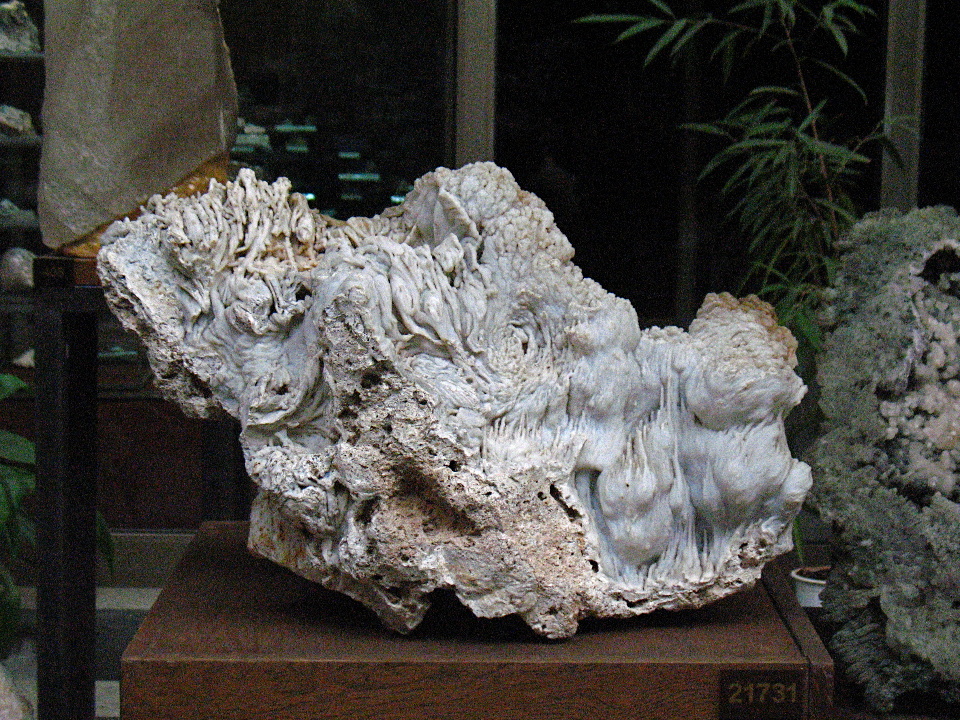 Quartz (Chalcedony) in the National Museum "The Earth and Man", Sofia